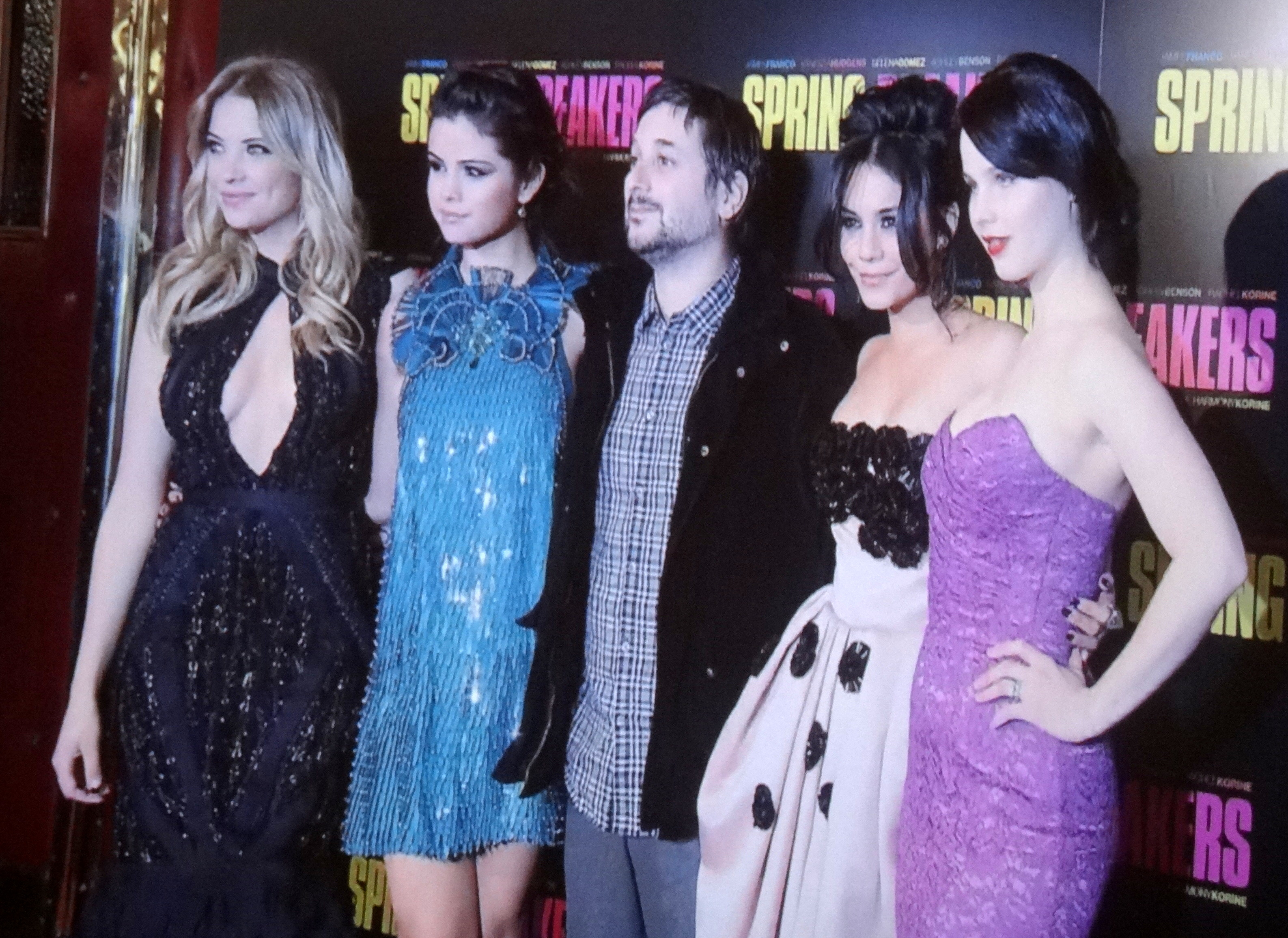 Spring Breakers Cast: Vanessa Hudgens, Selena Gomez, Ashley Benson, Rachel Korine & Director Harmony Korine at the AVP Paris Le Grand Rex (February 2013).